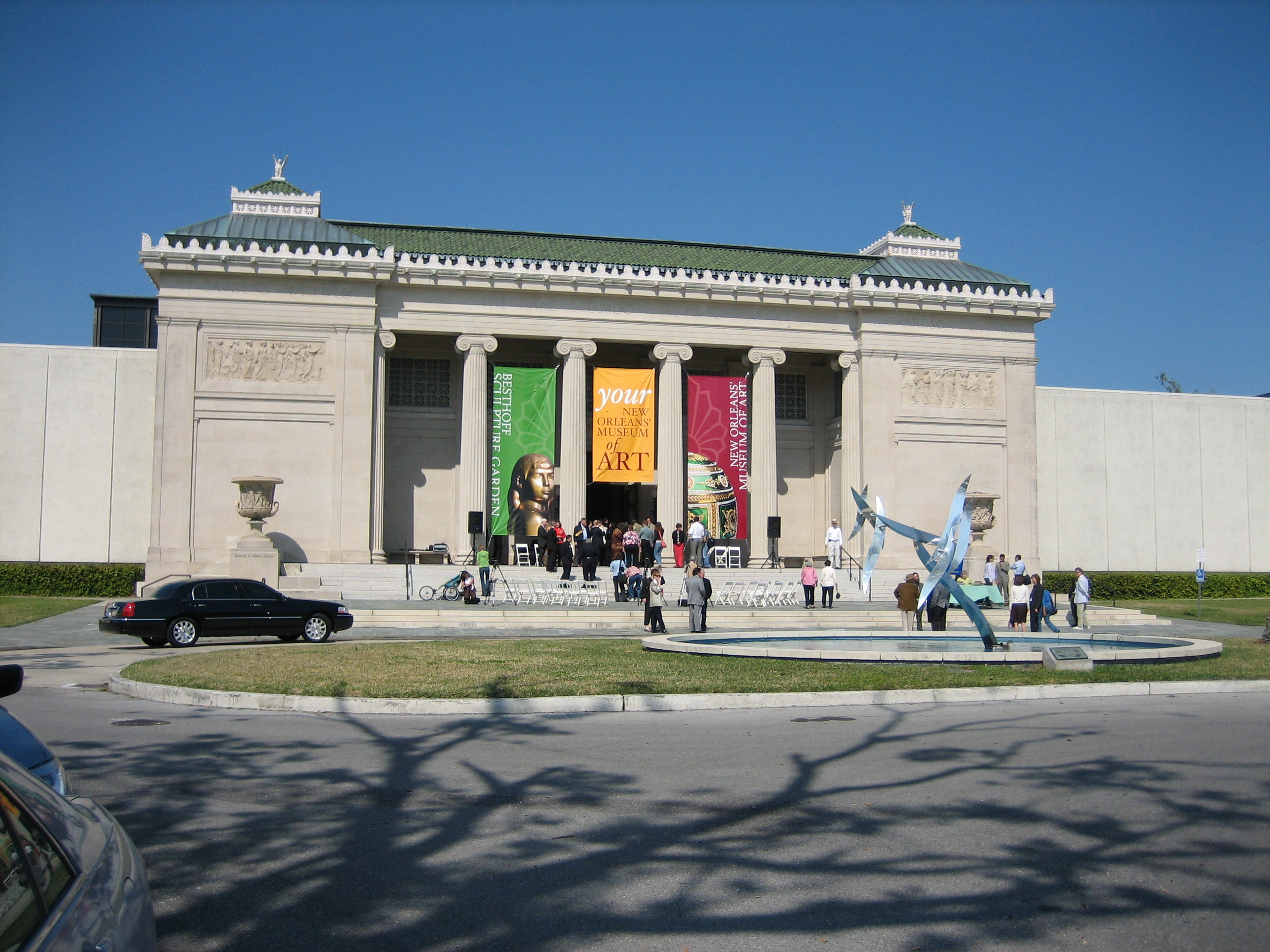 New Orleans Museum of Art, reopening day, 3 March 2006; first day back open since Hurricane Katrina. Photo by Infrogmation, 3 March, 2006